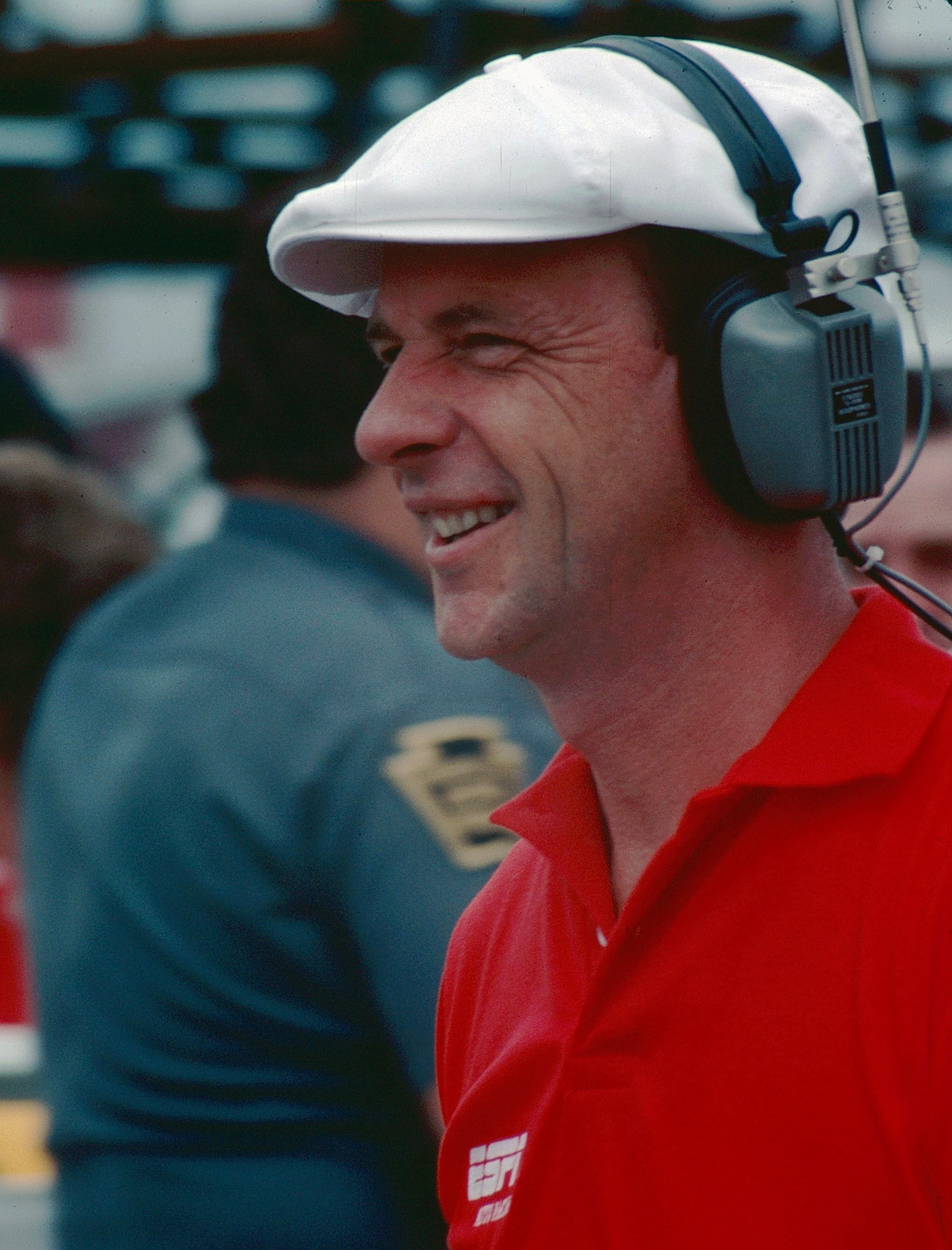 A photo of motorsport announcer Dick Berggren, who has reported on and announced sprint cars, IndyCars, NASCAR, etc. in his long career. Taken by Ted Van Pelt.